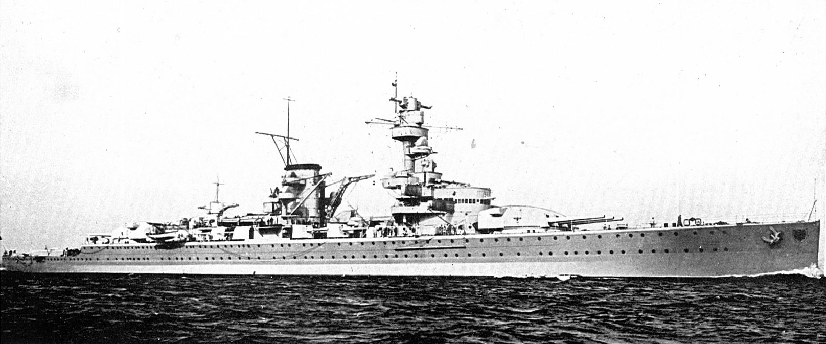 German armoured cruiser Deutschland Photo: Jane's Fighting Ships